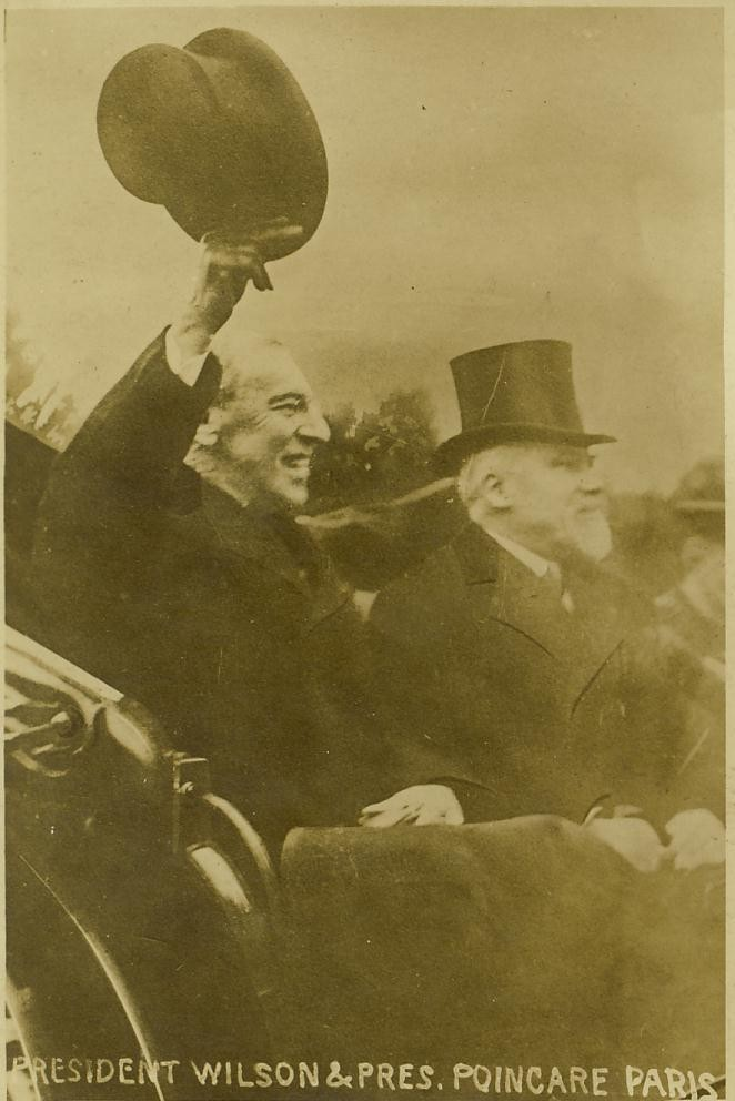 Local Accession Number: 181b Description: Wilson and President Poincare on parade in Paris, France. Wilson became the first president to leave the United States while in office when he traveled to France in December, 1918. Photographer: Unknown Source: Research Library, 20th Century Fox Size: 8x10 Medium: Print, Black and White Date: 1918